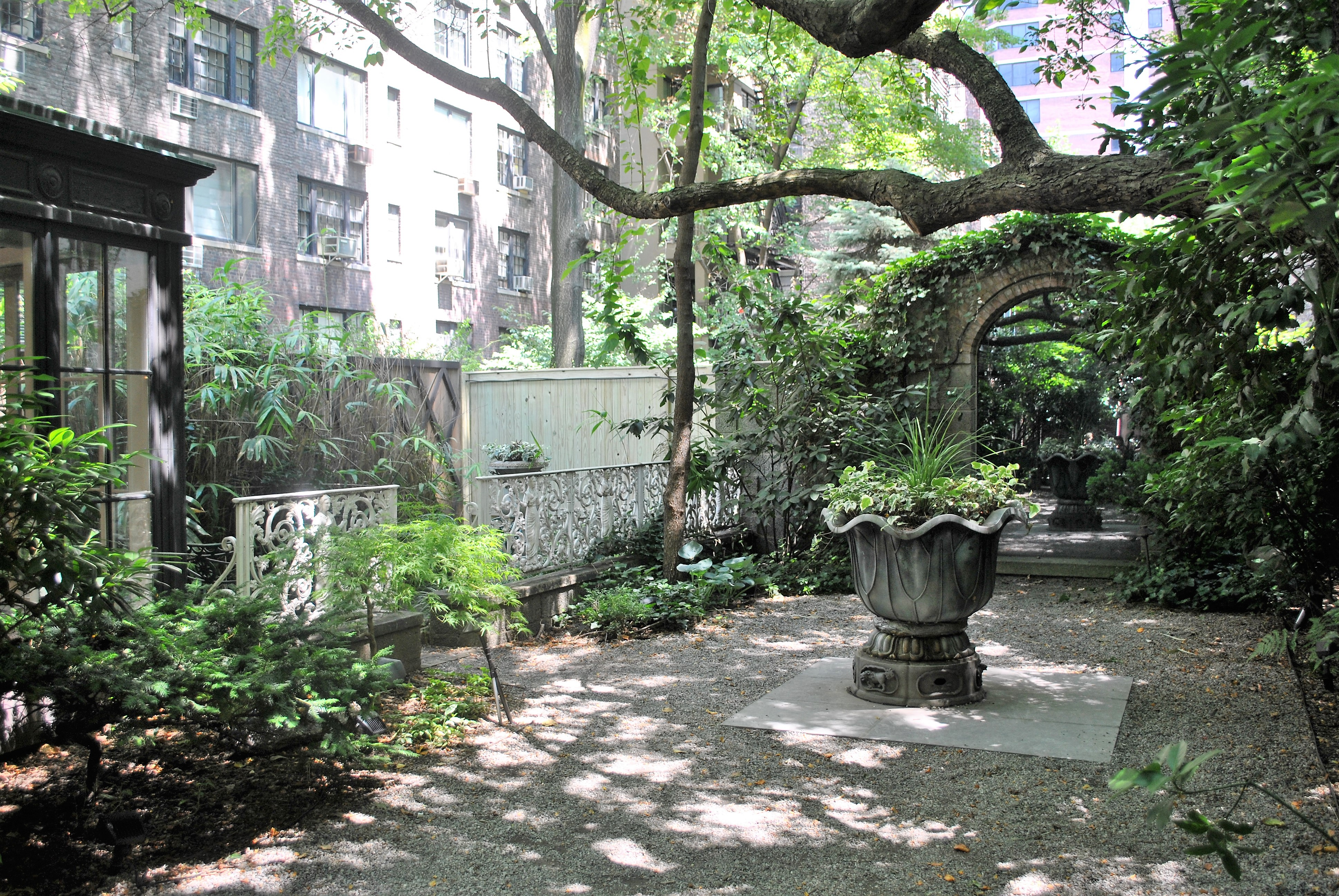 Image originally published in Queer Places: Retracing the Steps of LGBTQ people around the World Authored by Elisa Rolle